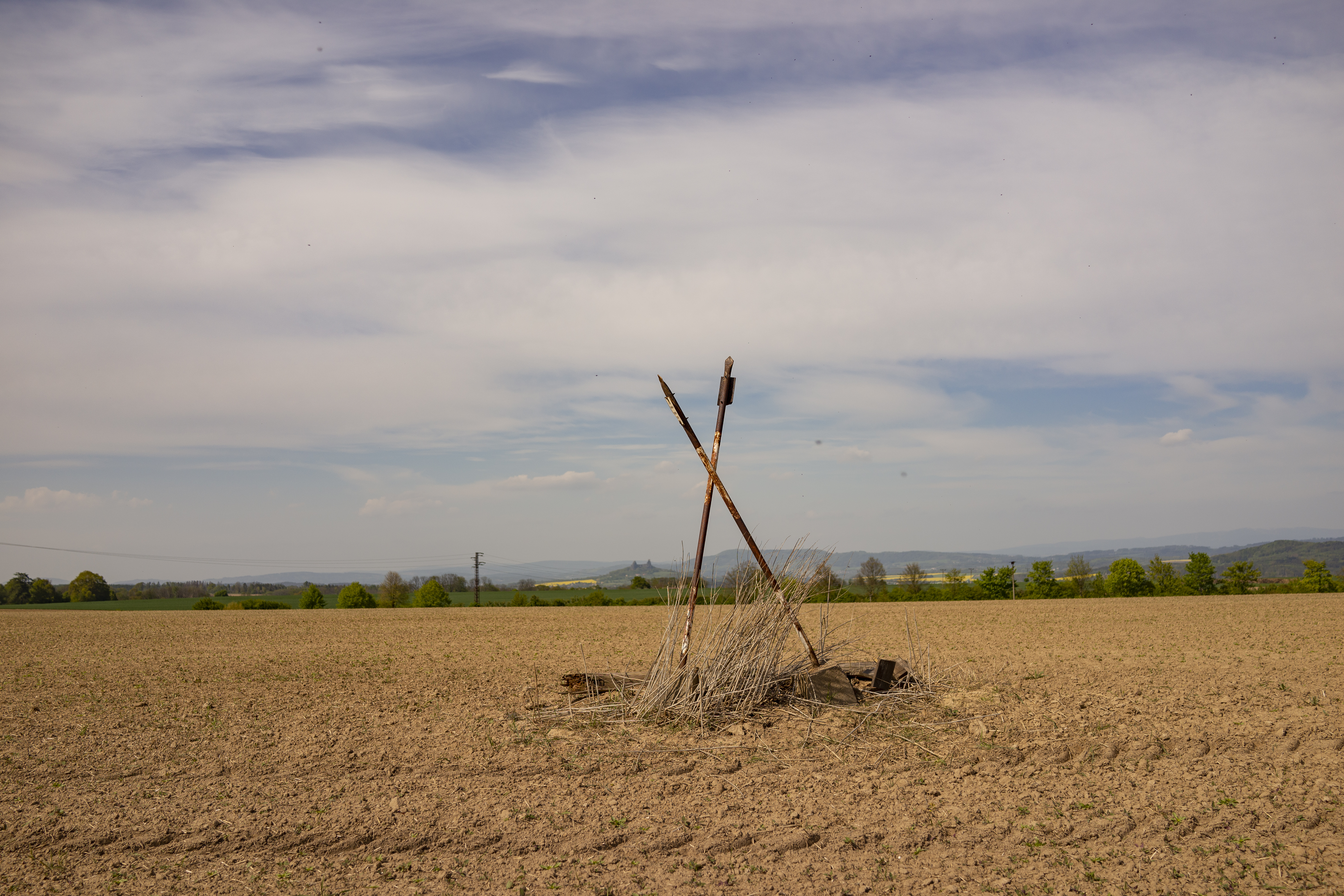 The top of the Cakan hill (398m) near Markvartice, Jicin District, Czech Republic